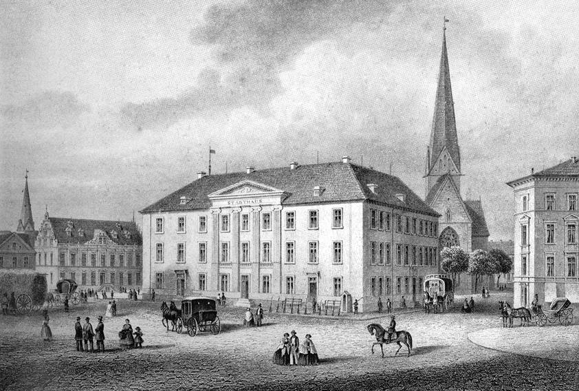 The Stadthaus (“Cityhouse”) at the Domshof in Bremen, Germany. Steel engraving by Julius Gottheil, made between 1850 and 1864.